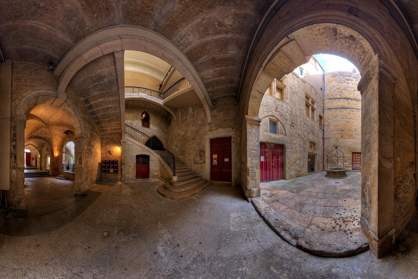 360° panoramic view of 'Hôtel de Varennes' in Montpellier (France) .